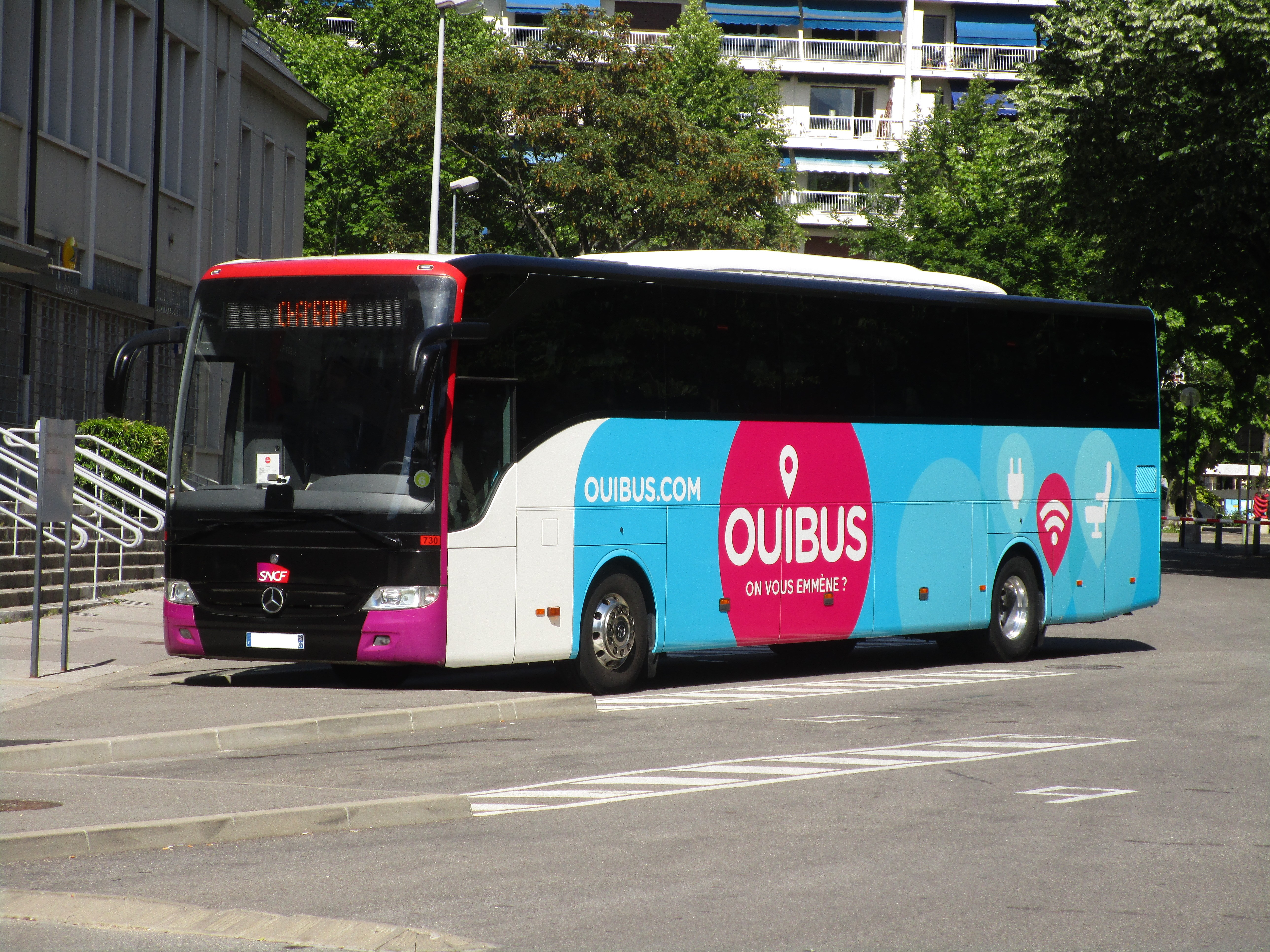 The Mercedes-Benz Tourismo n°730 of OUIBUS at the bus station of Chambéry on May 21, 2017.